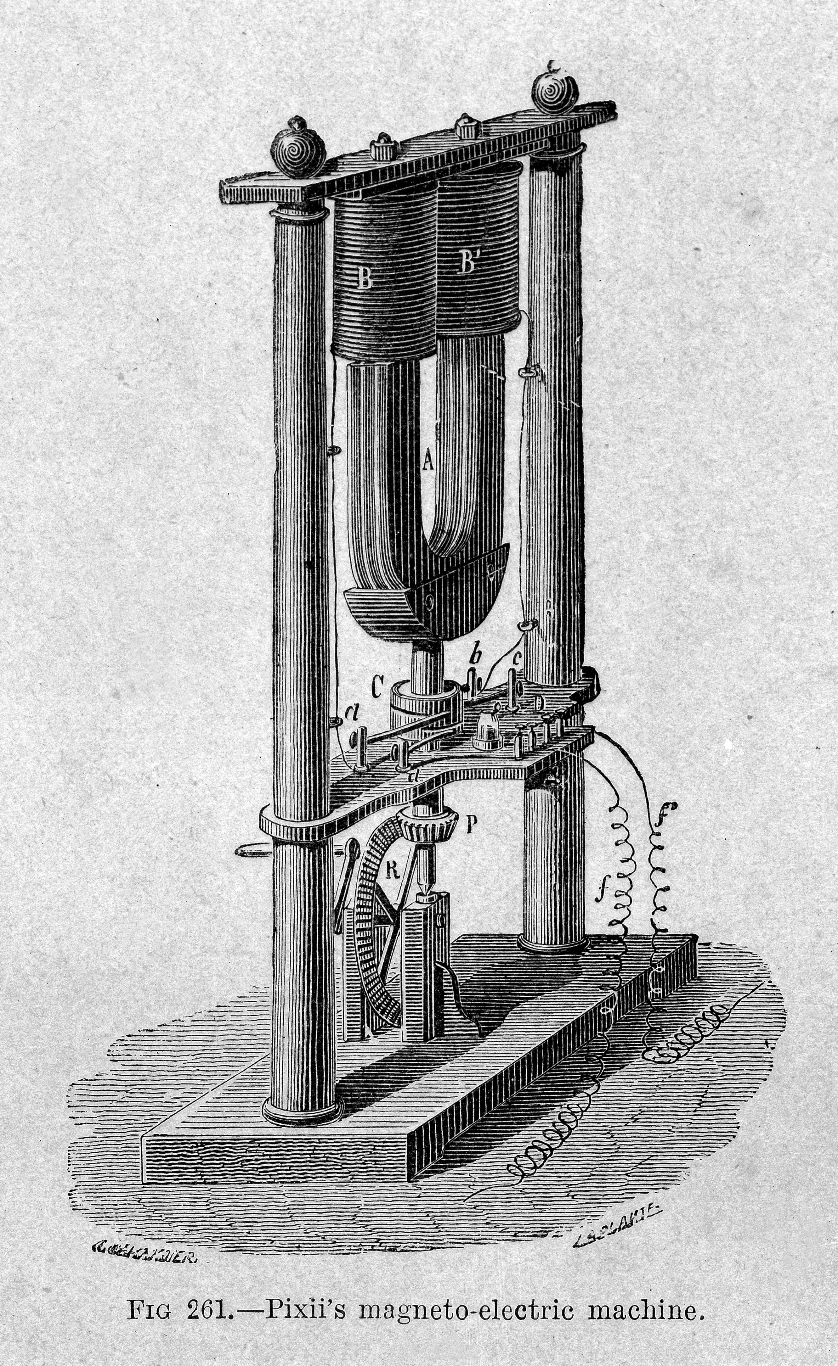 Pixii's magneto-electric machine, the first induction machine to be put on the market. Wellcome Images Keywords: Electricity